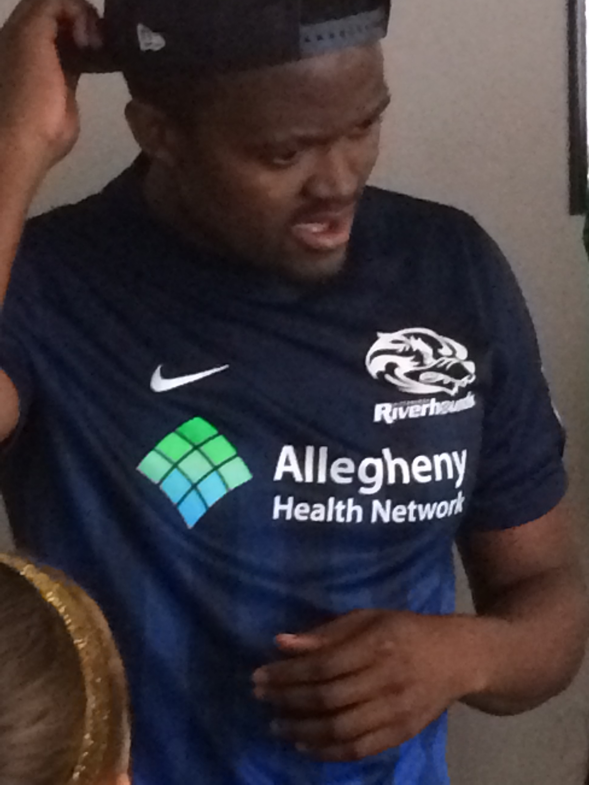 Lebo Moloto, South African footballer, with Pittsburgh Riverhounds in 2016